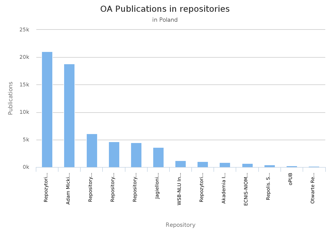 Bar graph describing open access to scholarly communication in Poland. University of Lodz Repository and Adam Mickiewicz University Repository have the most digital assets.